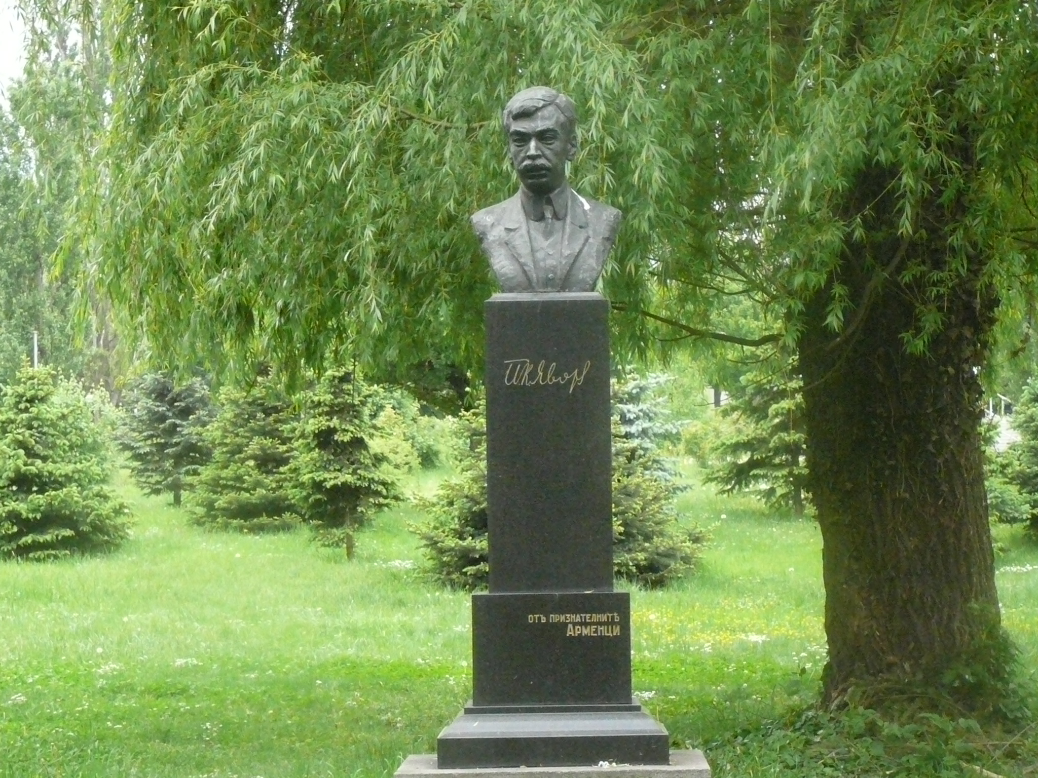 Monument of Peyo Yavorov in the Borisova garden of Sofia, Bulgaria